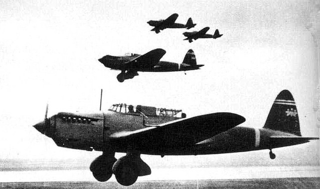 Ki-32 Mary used in Battle of H